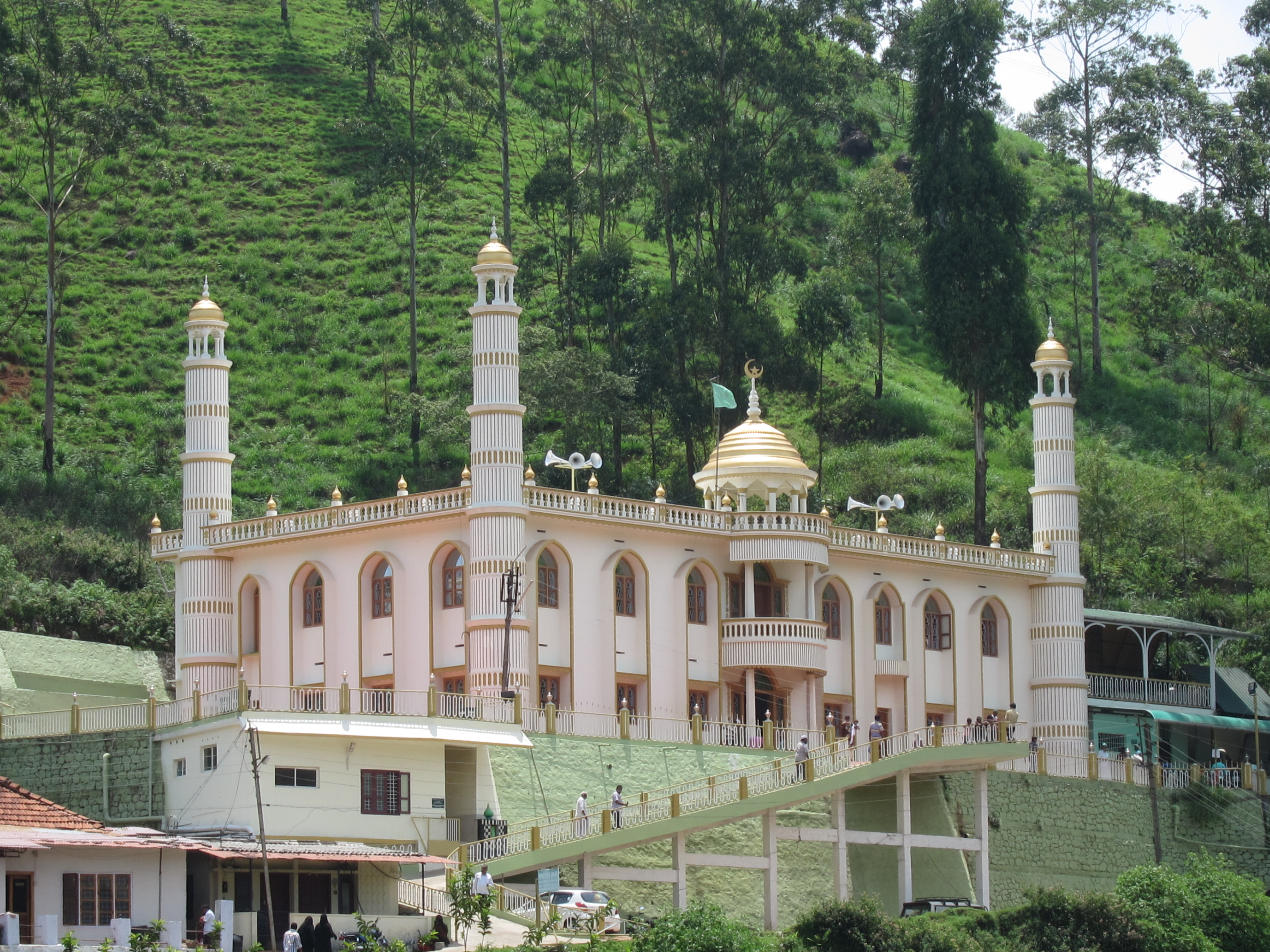 Munnar Muslim Jamath Munnar, Idukki, Kerala, India